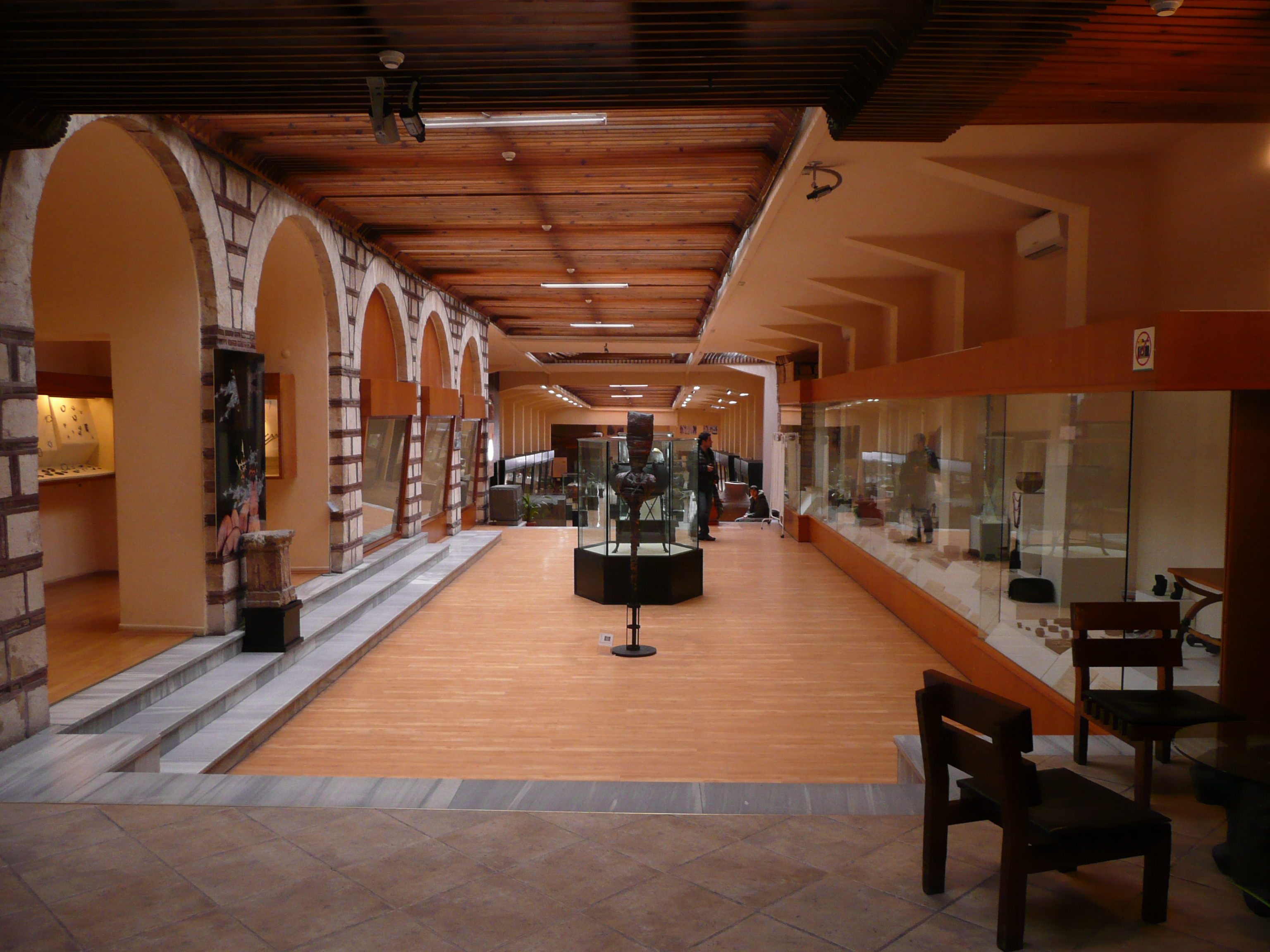 The Museum of Anatolian Civilizations is situated in Ankara, Turkey. It is one of the leading museums in the world for its unique collection of the ancient history of Anatolia.